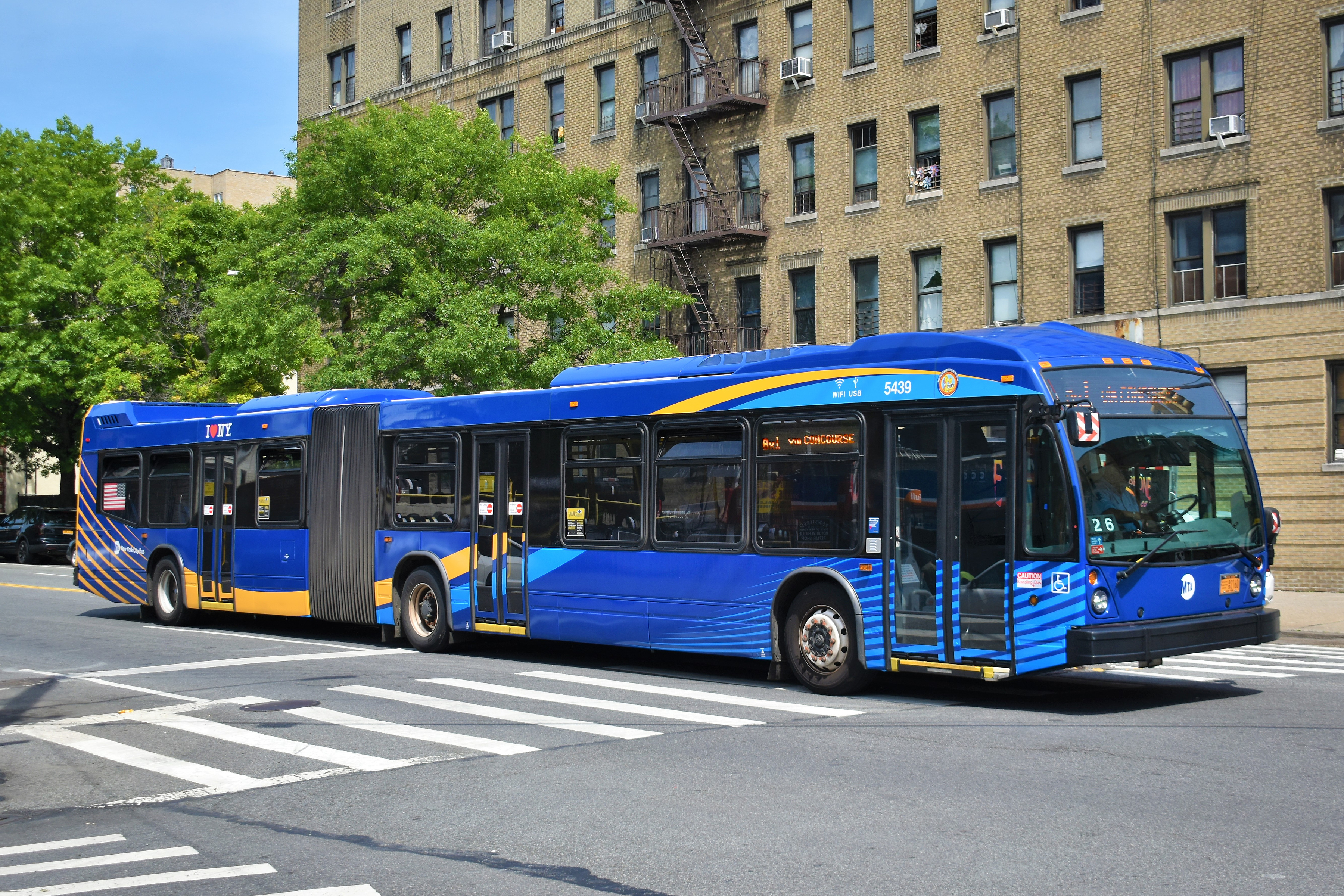 A driver of an MTA New York City Transit Nova Bus LFS articulated bus, 5439, is preparing to turn left from Bailey Avenue onto Albany Crescent, while operating along the Bx1 Limited in Kingsbridge, due south to Mott Haven.